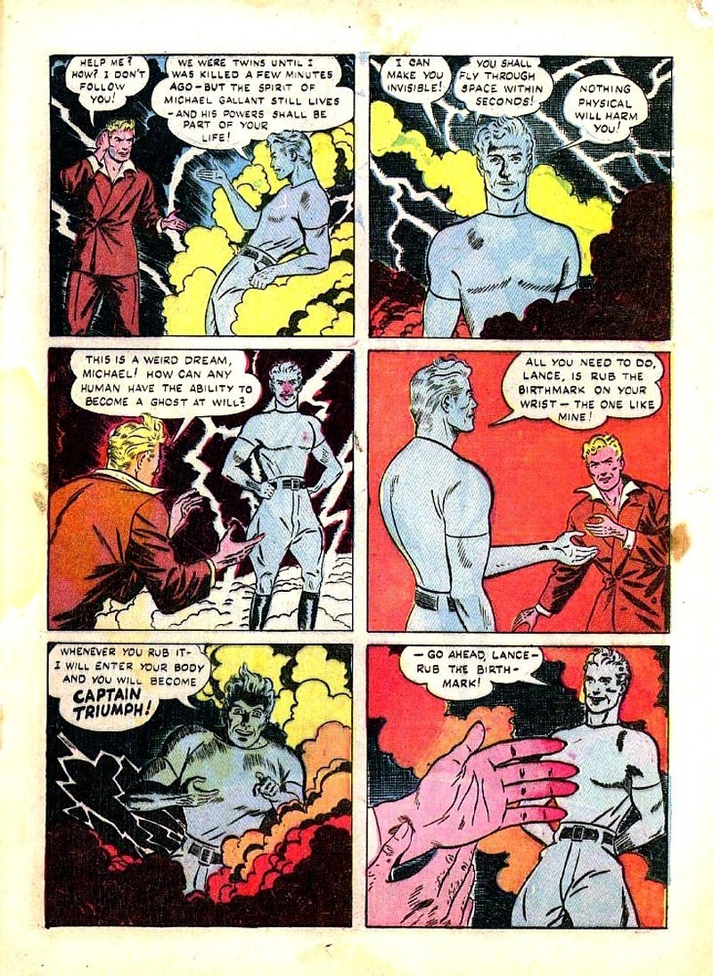 Page 5 of Crack Comics #27.